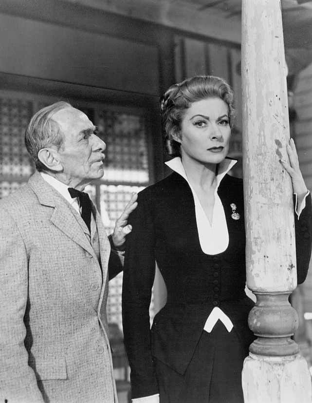 Photo of Greer Garson and Florenz Ames from the television anthology series Telephone Time; episode "Revenge", aired September 10, 1957